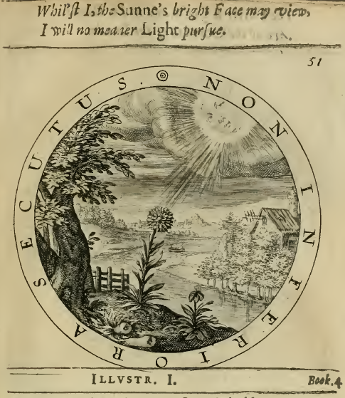 Engraving by Crispin van Passe, as published in George Wither's Collection of Emblems (1635)